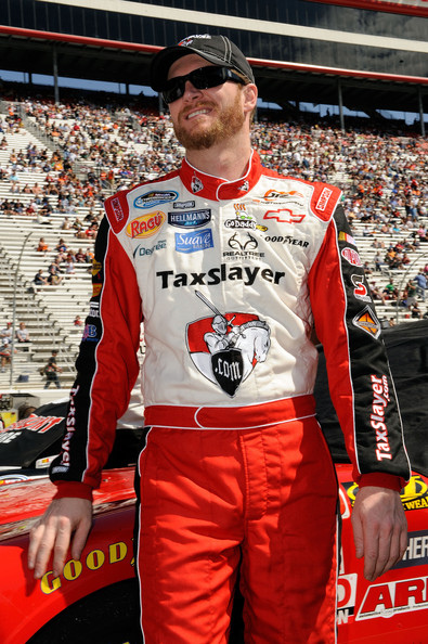 Dale Earnhardt Jr., driver of the #5 Chevrolet, stands next to his car on the grid prior to the NASCAR Nationwide Series Scotts EZ Seed 300 at Bristol Motor Speedway on March 19, 2011 in Bristol, Tennessee.